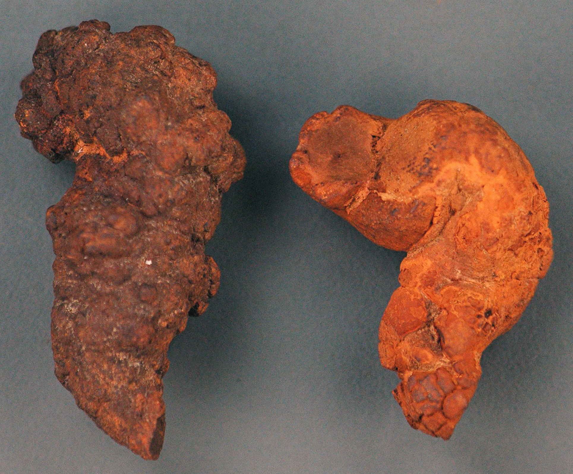 Vertebratea cololites (larger specimen is 3.4 cm tall) from the Miocene of Washington State, USA. An abundance of fossil material traditionally identified as coprolites (fossilized feces) has been found in the Miocene of Washington State for many years. Examination of these coprolites by the famous paleontologist Dolf Seilacher and others has resulted in a reassessment of their identification. “Washington coprolites” are now identified as cololites (intestinal casts). The evidence & rationale behind this identification are summarized in Seilacher et al. (2001 - Paleobiology 27(1): 7-13). These structures are composed of siderite (FeCO3 - iron carbonate), and generally have yellowish-brown coatings of limonite (FeO·OH·nH2O - hydrous iron hydroxy-oxide). Ordinarily, the preservation potential of intestinal casts of vertebrates seems fairly low. Strangely, no vertebrate fossil bone or teeth remains occur in the Wilkes Formation cololite-bearing beds. Bones & teeth are normally expected to have a fairly high preservation potential. The paradoxical situation of abundant cololites and no bones & teeth was explained by Seilacher et al. (2001): the cololites were sideritized by bacterial activity and diagenesis involving moving groundwater fronts that favored dissolution of phosphatic material (bones, teeth) & precipitation of iron carbonate. Many Wilkes Formation cololite specimens are morphologically consistent, especially those that represent the lower sigmoid colon and rectum (see above photo). Some specimens have a longitudinal groove incised along the cololite, which is an impression of the taenia coli, a ribbon of smooth muscle that occurs along one side of the large intestine (not a feature of a coprolite!). Stratigraphy: fine-grained, tuffaceous fluvial or lacustrine sedimentary rocks of the Wilkes Formation, Upper Miocene Locality: Salmon Creek area, southwestern Lewis County, southwestern Washington State, USA